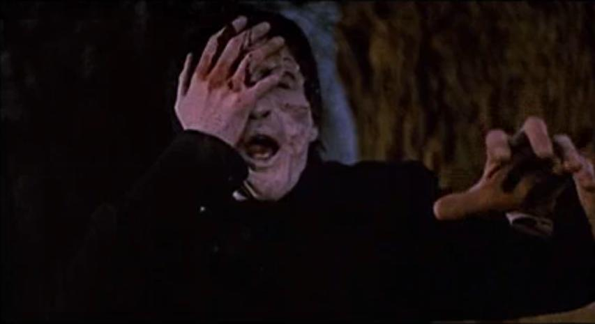 A screenshot of Christopher Lee as the monster from the Hammer Film The Curse of Frankenstein (1957)